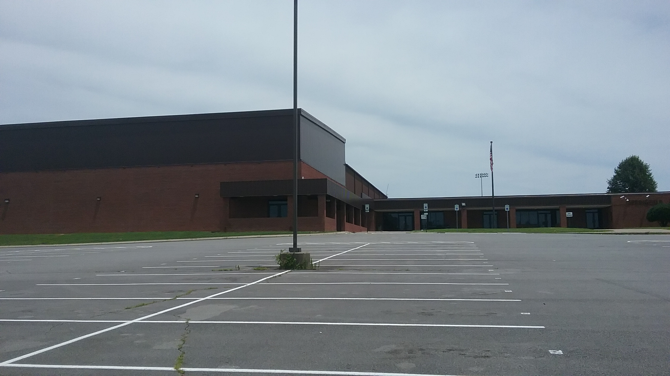 The image of the front of Springfield high school was taken on June 24, 2017